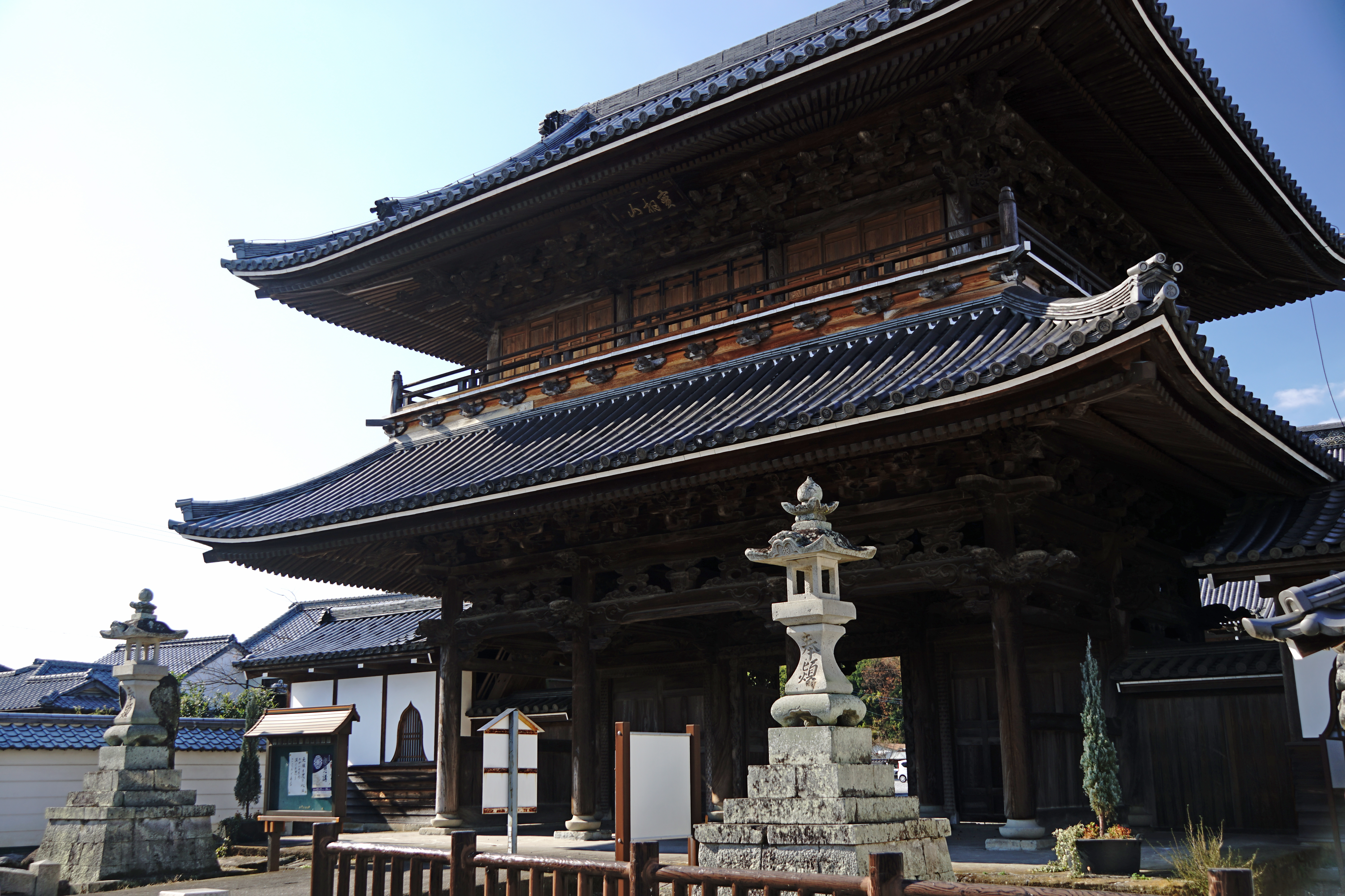 Main gate of Yokkaichibetsuin. The largest wooden buildings in the Kyushu island.